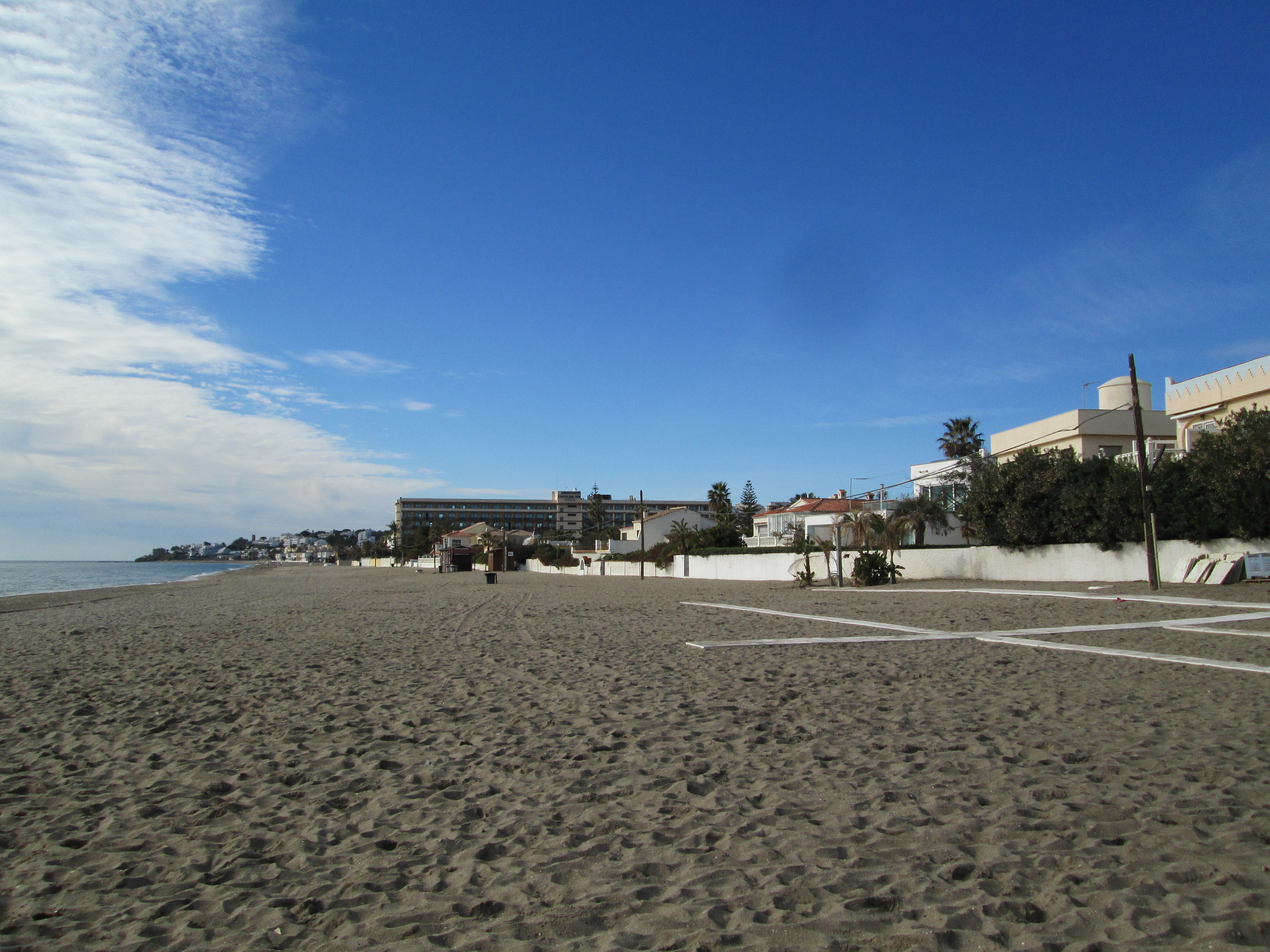 La Cala de Mijas